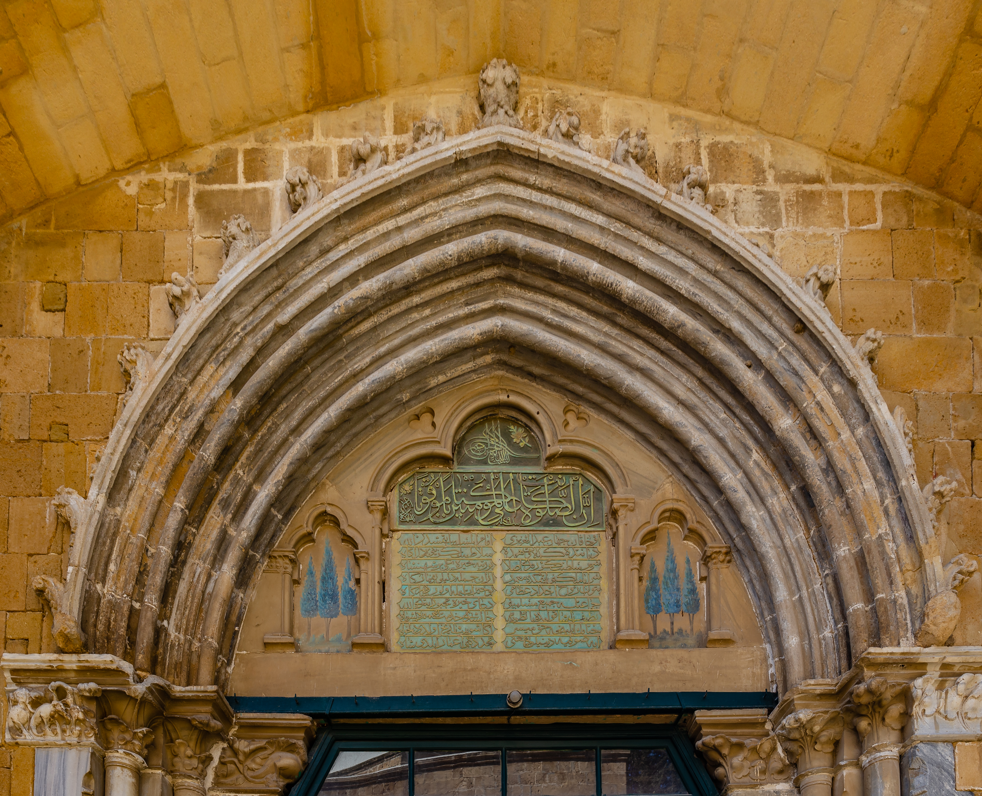 Portal above the entrance to Sultan II. Mahmut Library, Nicosia, Cyprus